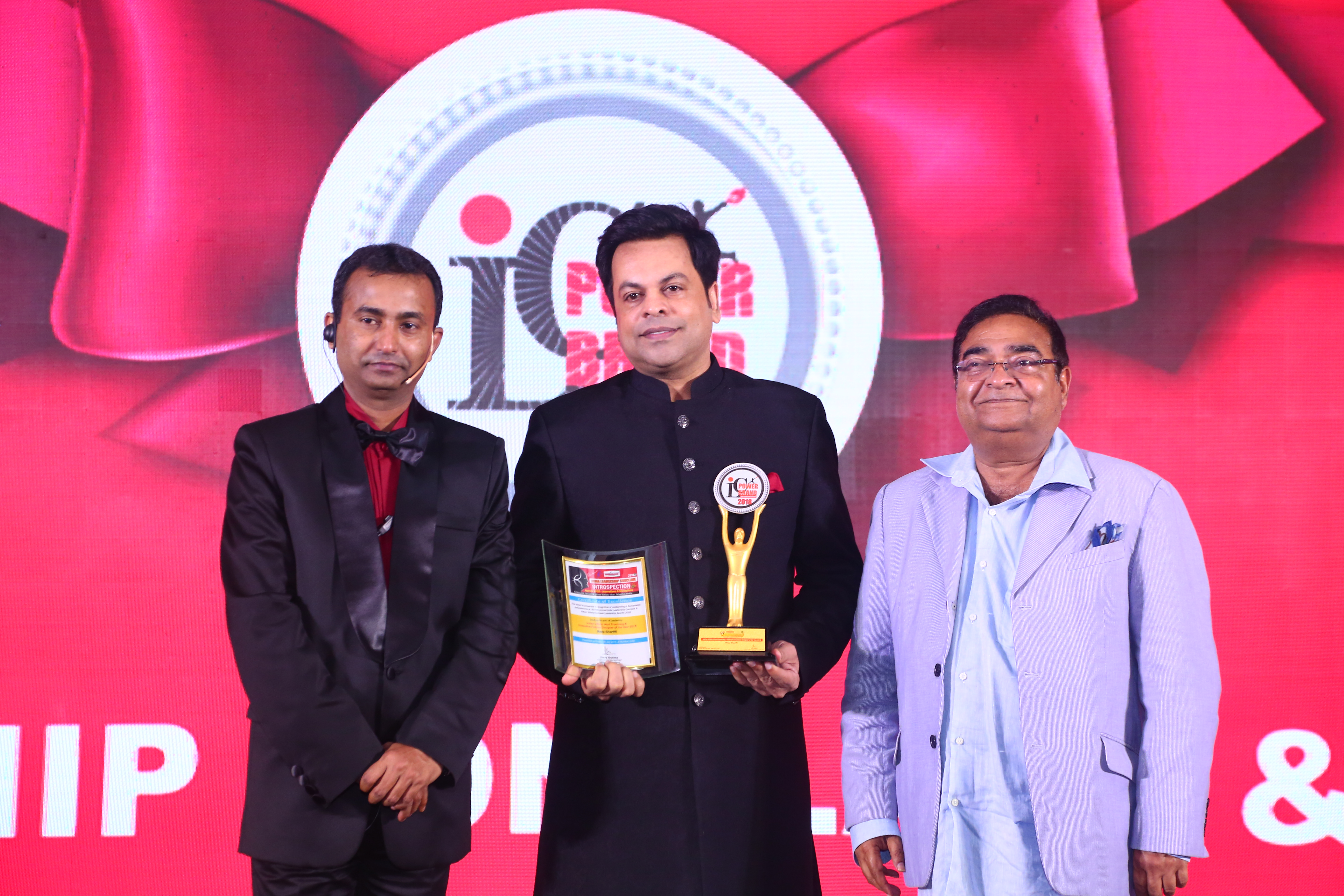 Reza received the prestigious "Indian Affairs Most Promising & Innovative Fashion Designer of the Year 2018" at historic India Leadership Conclave & Awards 2018